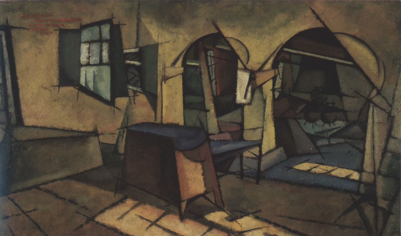 The Kitchen at Manhufe Houselabel QS:Len,"The Kitchen at Manhufe House"label QS:Lpt,"Cozinha da casa de Manhufe"